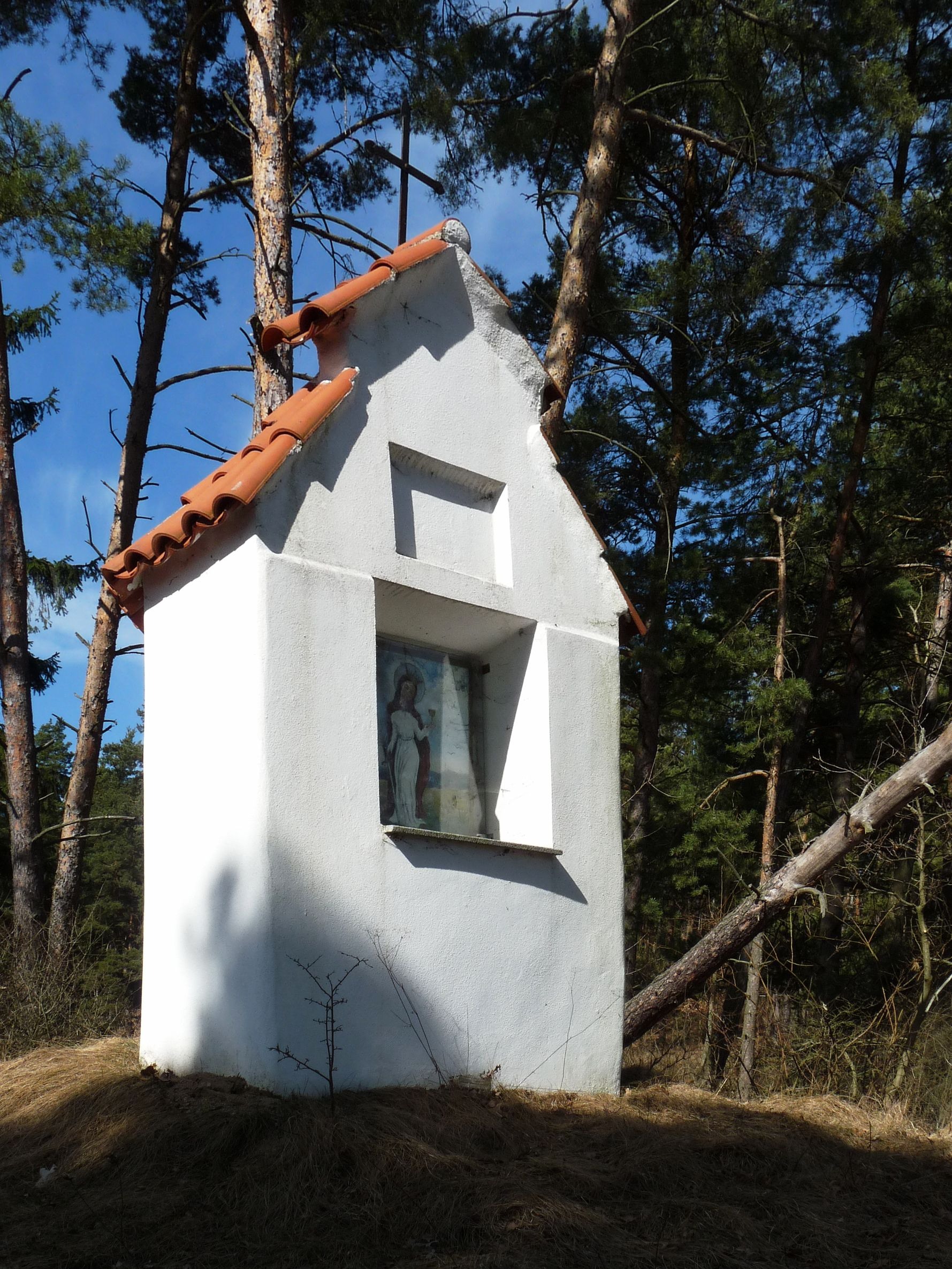 Saint Barbara wayside shrine in the municipality of Slatina, Klatovy District, Czech Republic